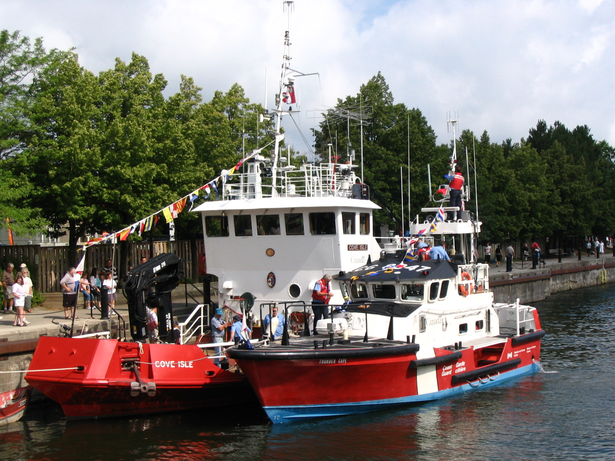 Canadian Coast Guard vessels, Owen Sound 2